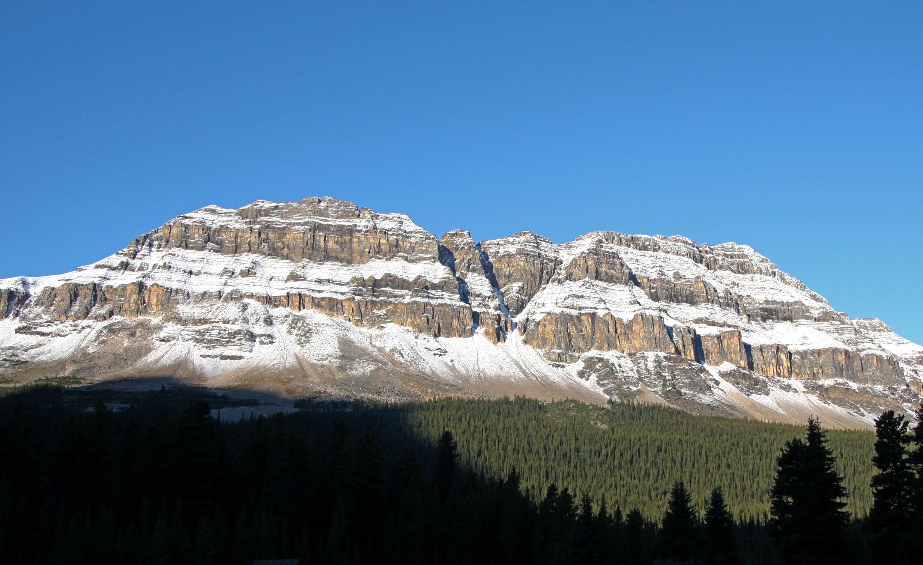 the broad east side of Bow Peak seen from Icefields Parkway. Banff Park, Canada